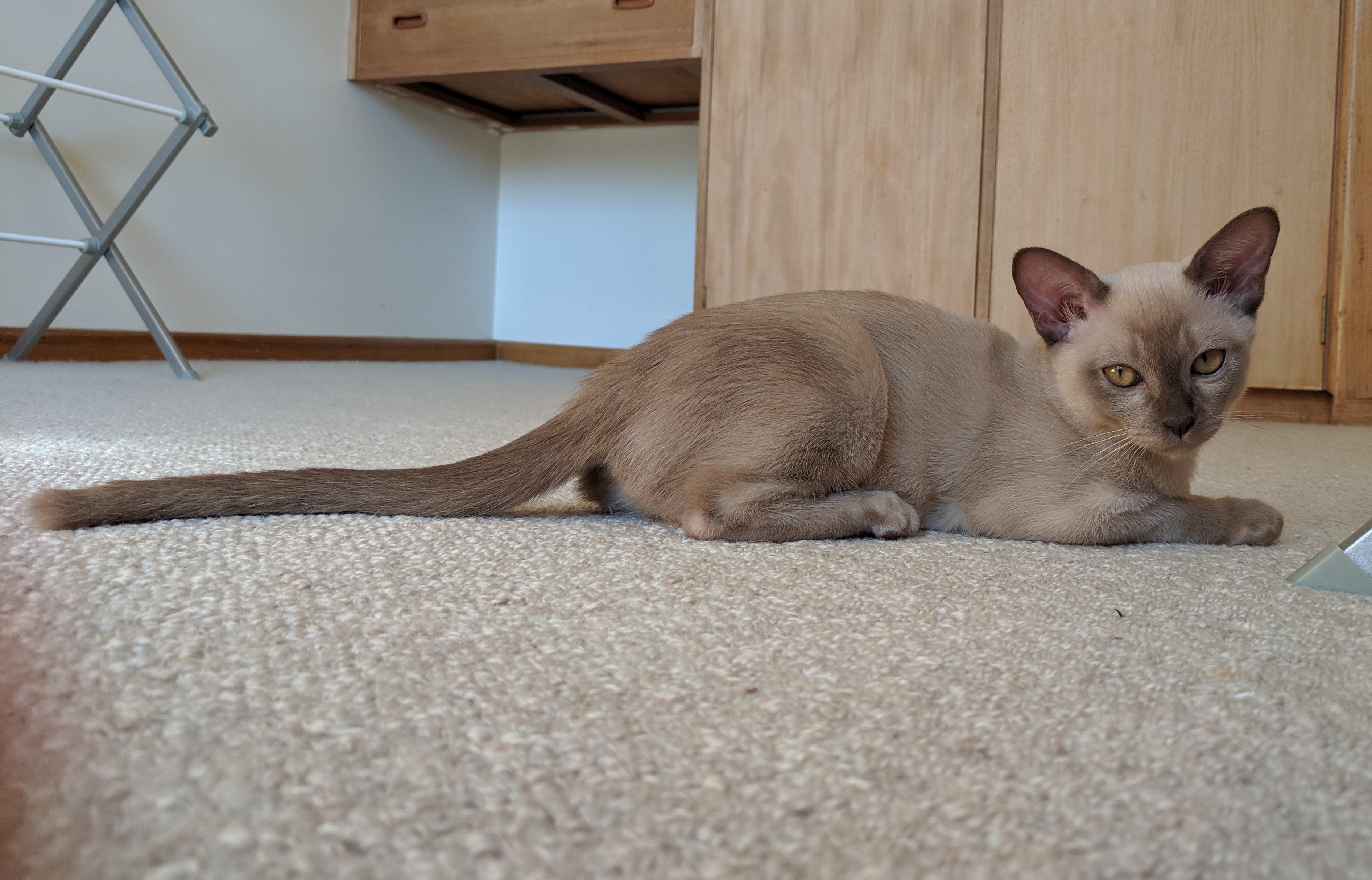 Chocolate (American "Champagne") British/European Female Kitten